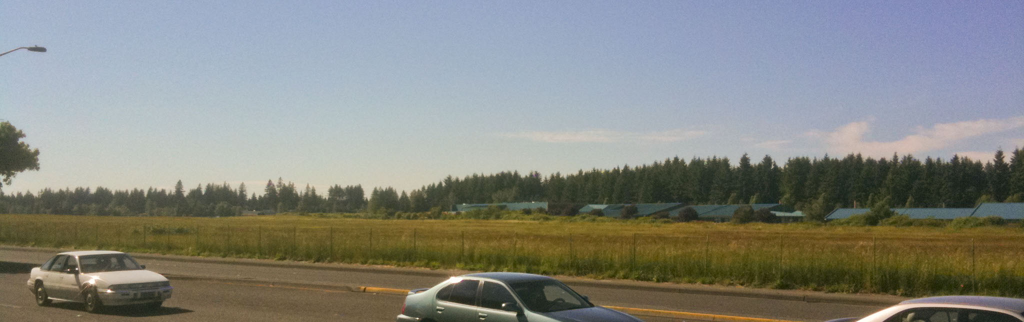 Snapshot of Evergreen Field location.